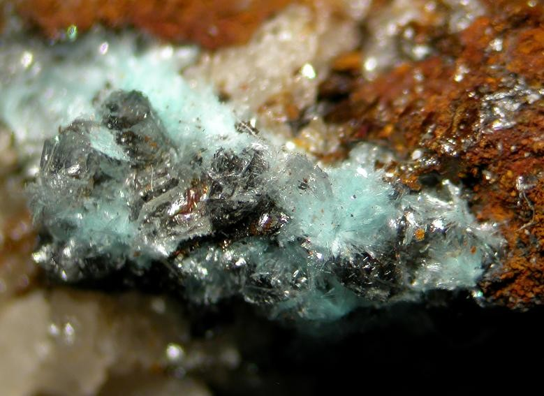 Chalconatronite Locality: Bastenberg Mine, Ramsbeck, Meschede, Sauerland, North Rhine-Westphalia, Germany (Locality at ) Light blue transparent crystals of Chalconatronite. Collected in 1986. Field of view 4 mm. Specimen and photo Leon Hupperichs.